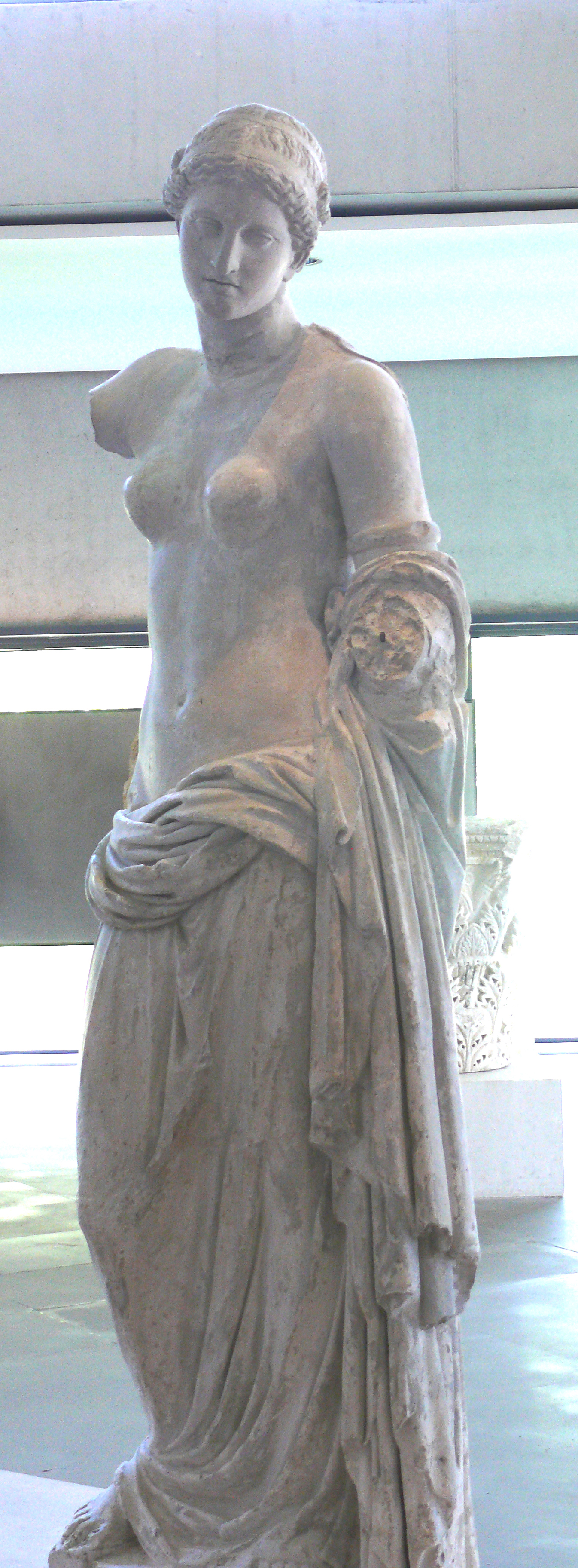 Copy of the Venus d'Arles Plaster (original statue: marble). Musée de l'Arles et de la Provence antiques. FAN92.00353.